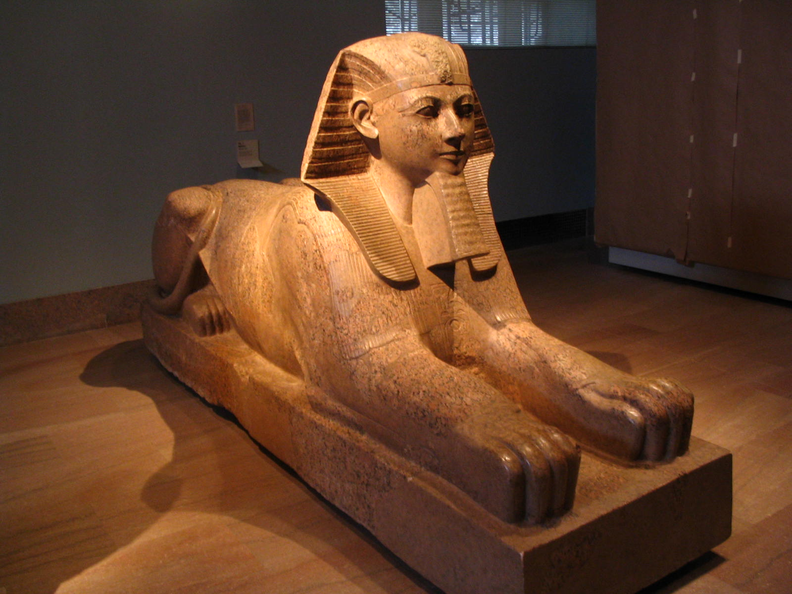 Sphinx, Metropolitan Museum of Art, NY